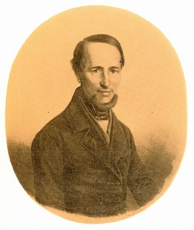 Paul Tischbein: Portrait of Johann Friedrich Wilhelm Lesenberg, German physician